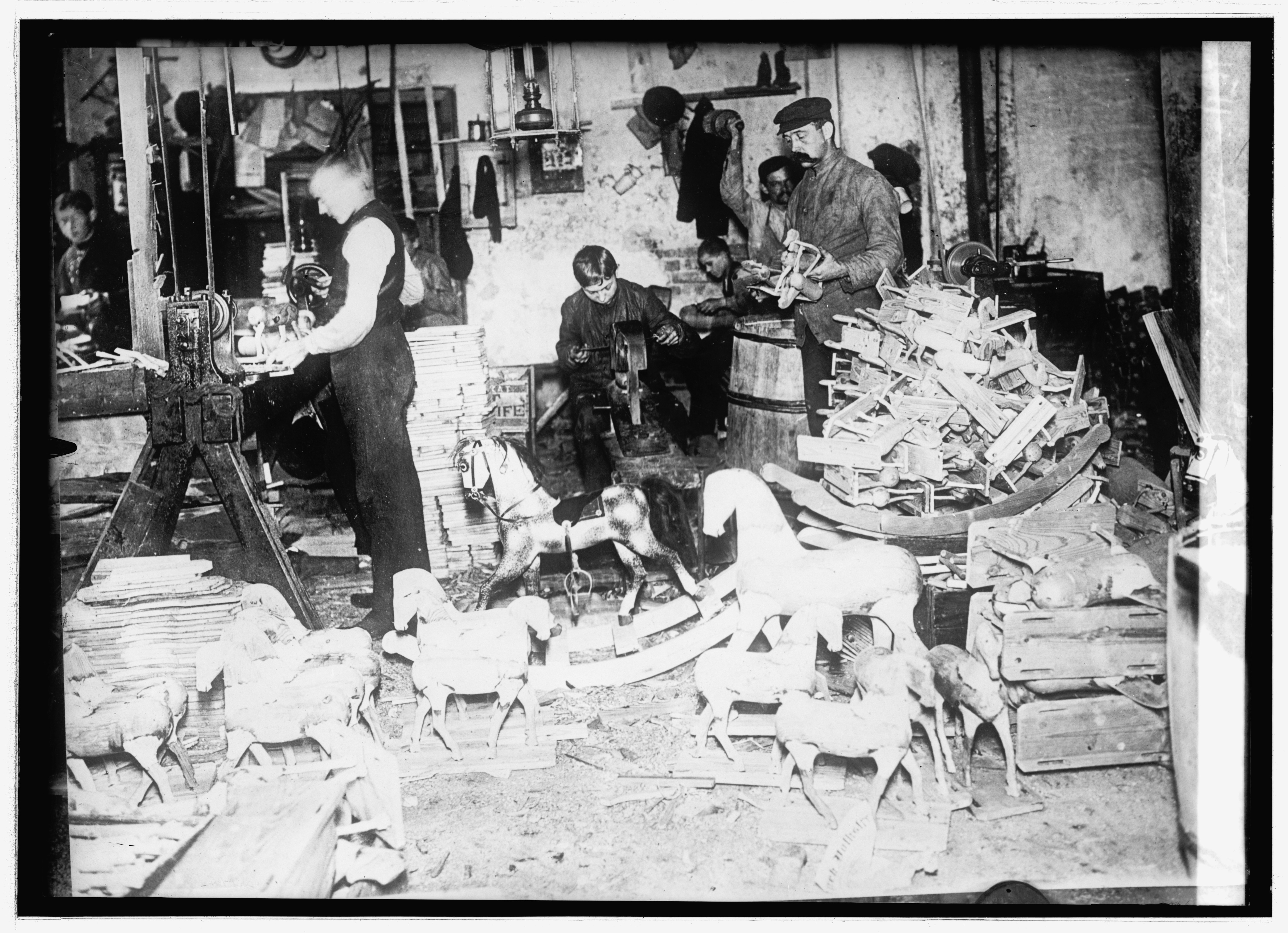 Title: Toy Makers Abstract/medium: 1 negative : glass ; 5 x 7 in. or smaller